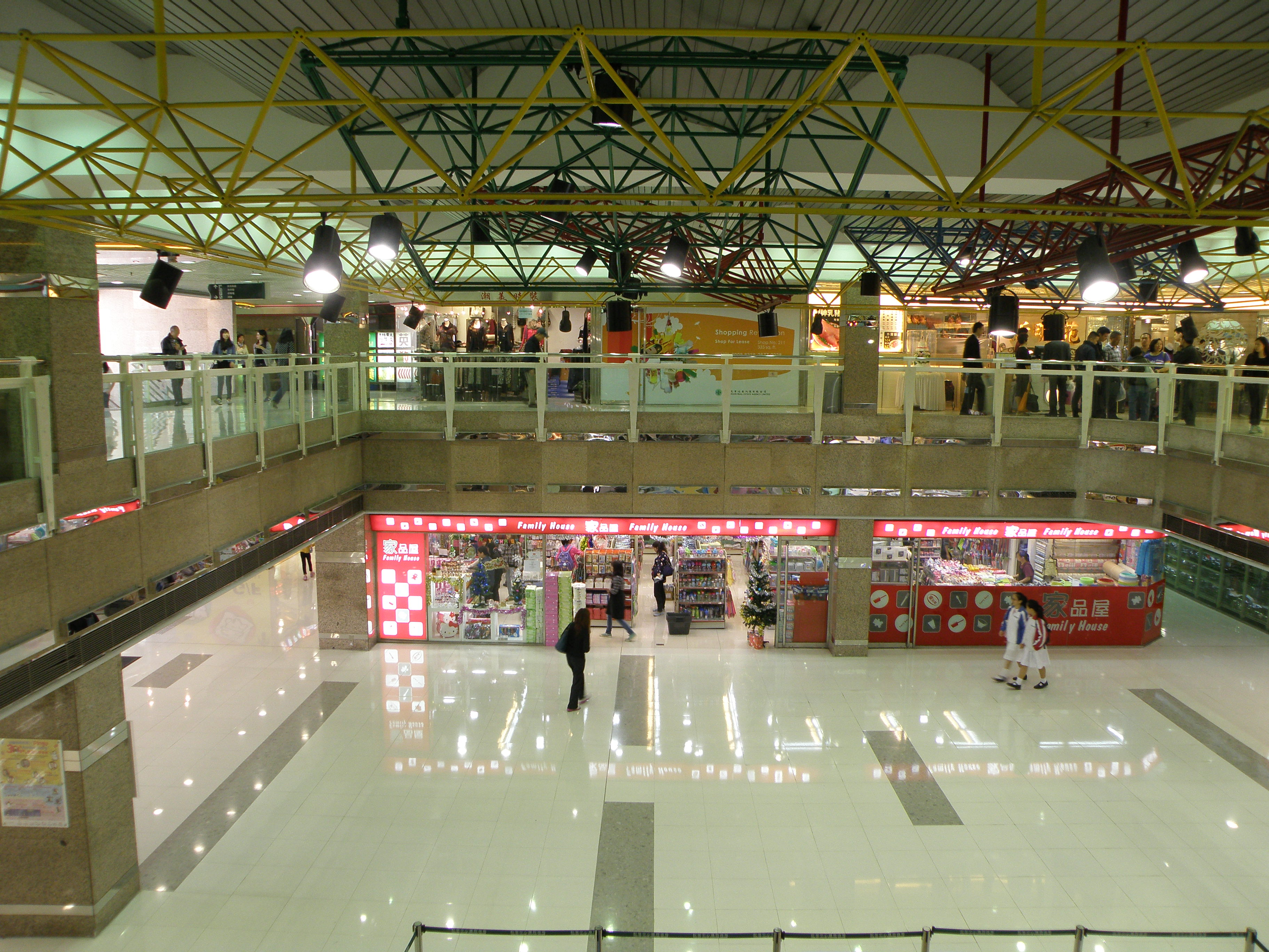 Fanling Centre in North District, Hong Kong.